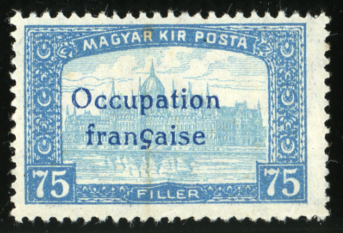 Overprint on a 75 fillér stamp of the Kingdom of Hungary during the French occupation of ARAD in 1919.